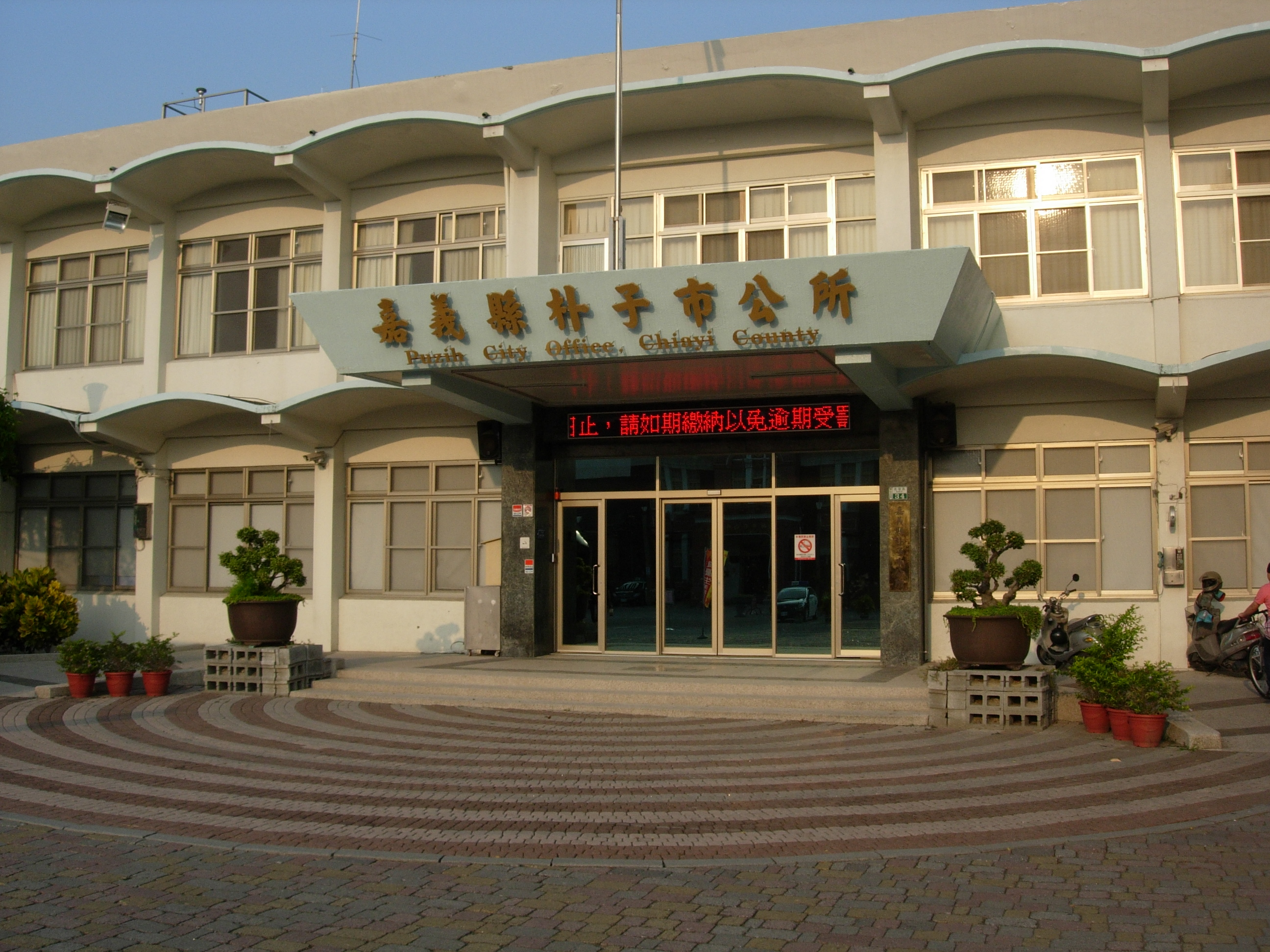 Puzih City Office, Chiayi County